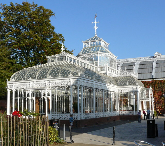 Horniman Museum Pictured is the Victorian conservatory, at the back of the museum.